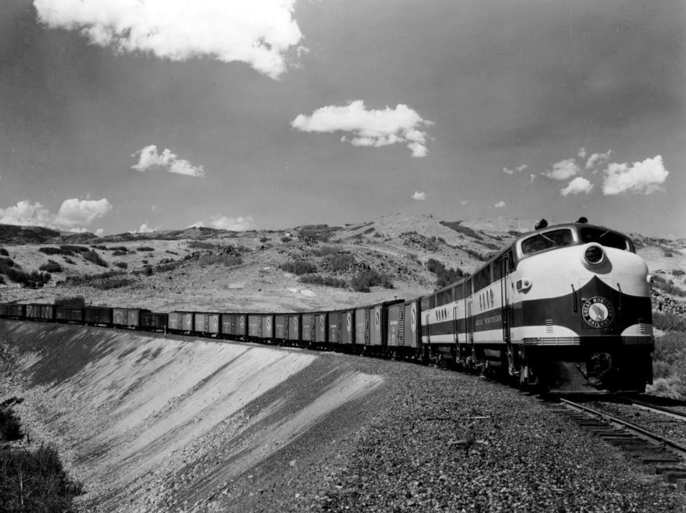 Photo of a Great Northern freight train.